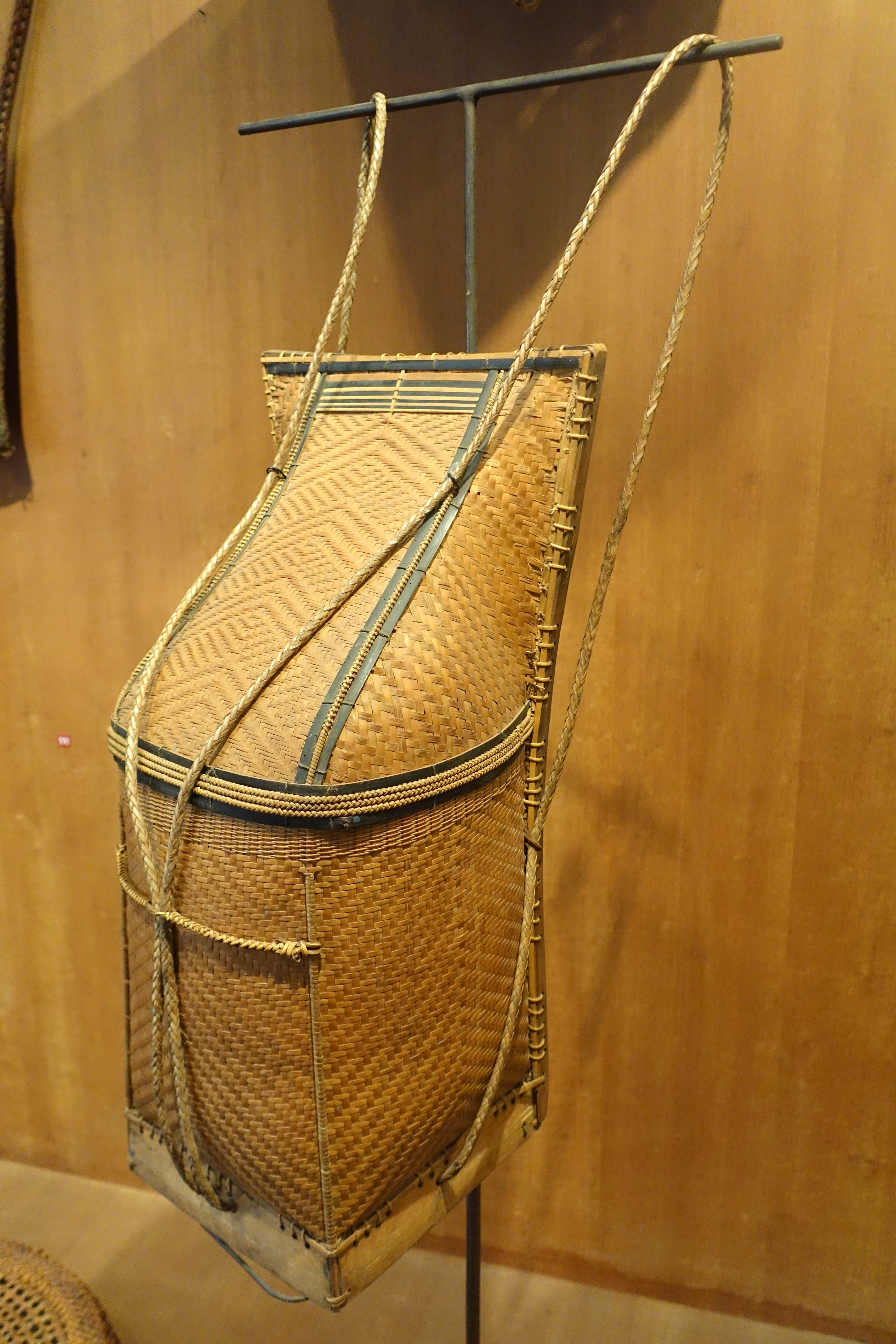 Exhibit in the Vietnam Museum of Ethnology - Hanoi, Vietnam.